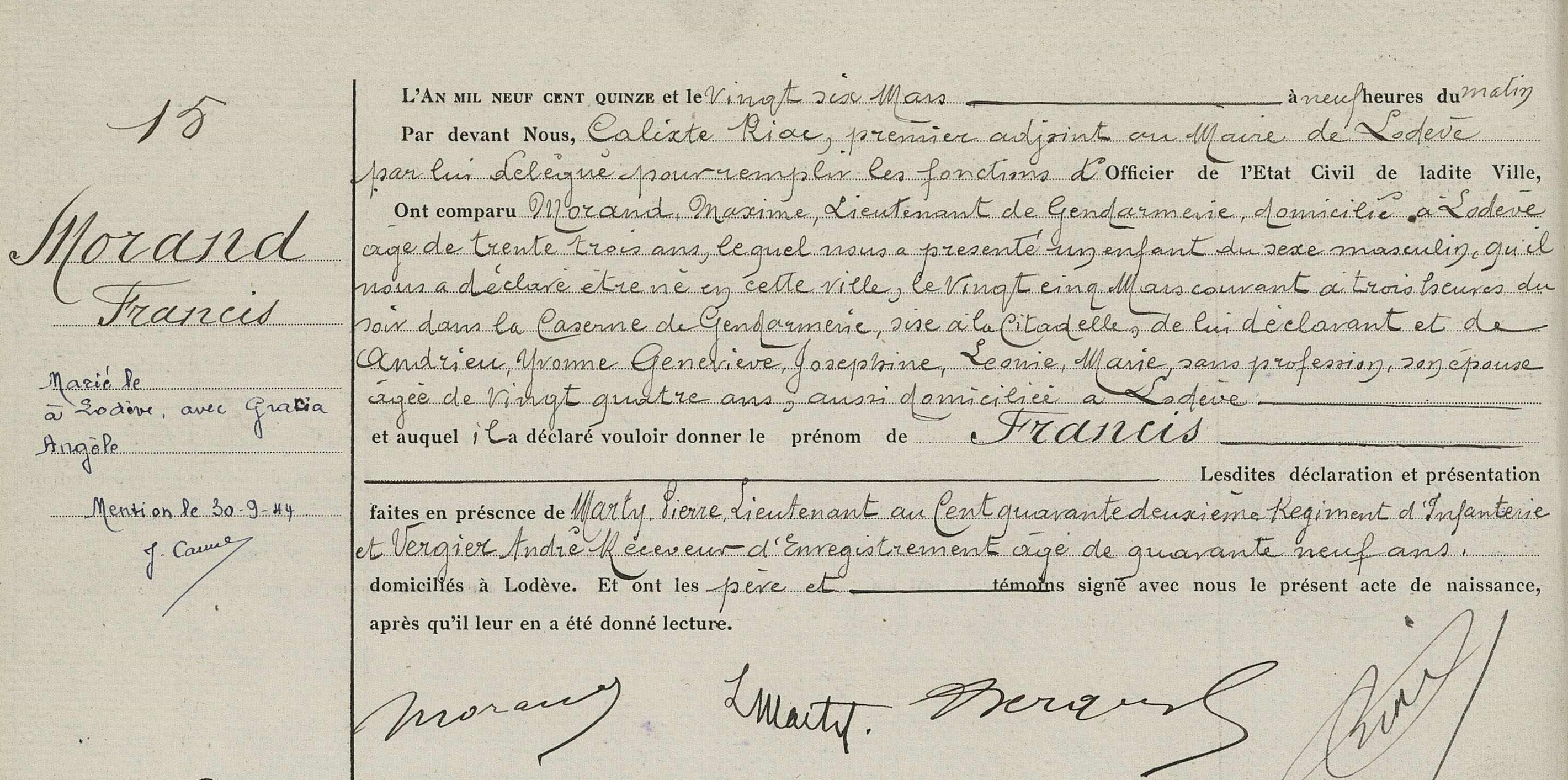 Compression 5/12 (Photoshop)